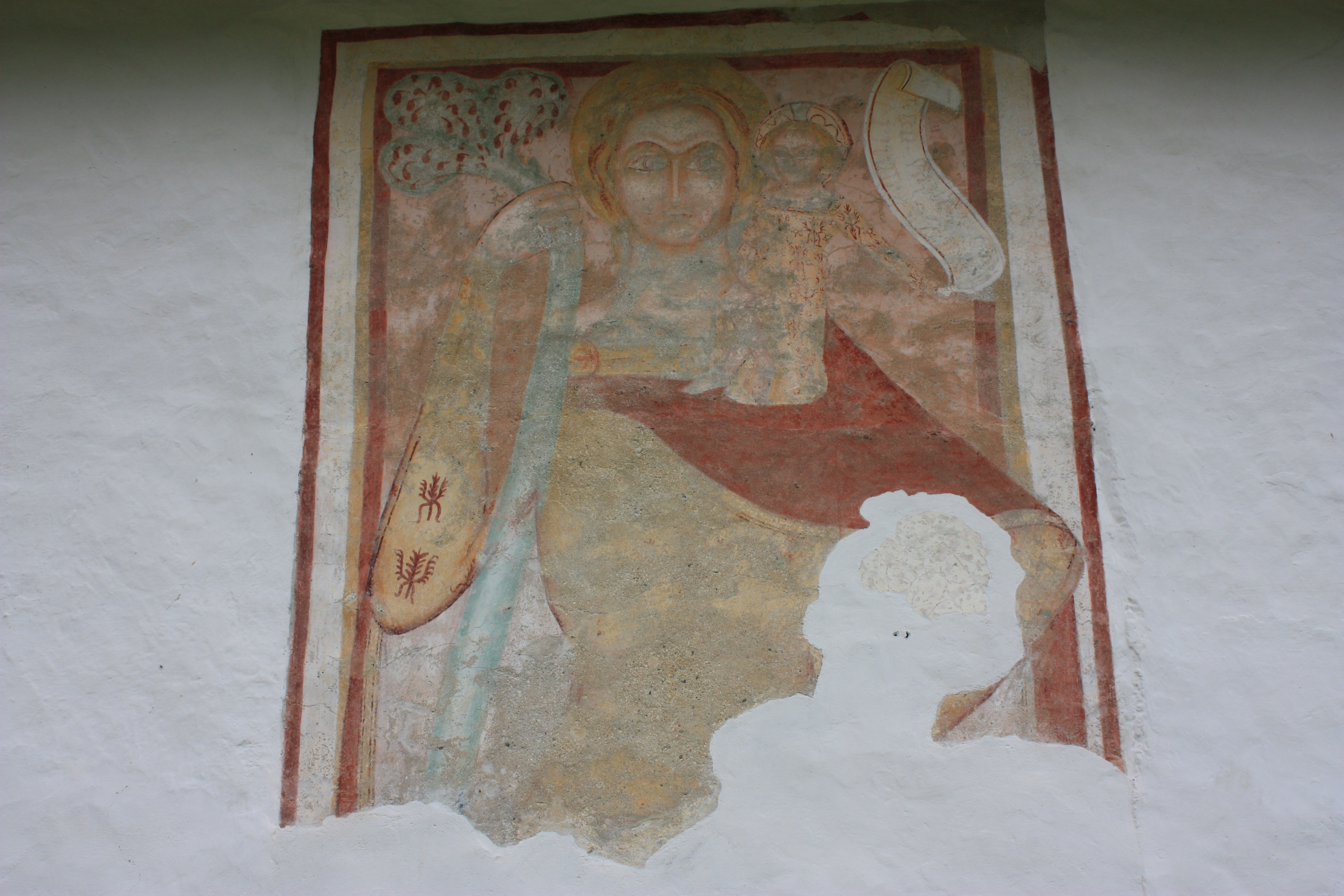 Subsidiary church Saint Athanasius: Saint Christopher Locality: Berg im Drautal Community:Berg im Drautal